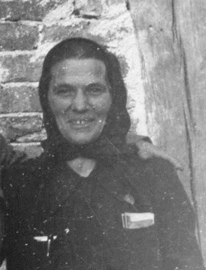 Kata Pejinović (1899-1966)